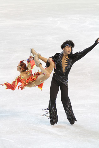 2010 European Figure Skating Championships - Jana Khokhlova and Sergei Novitski